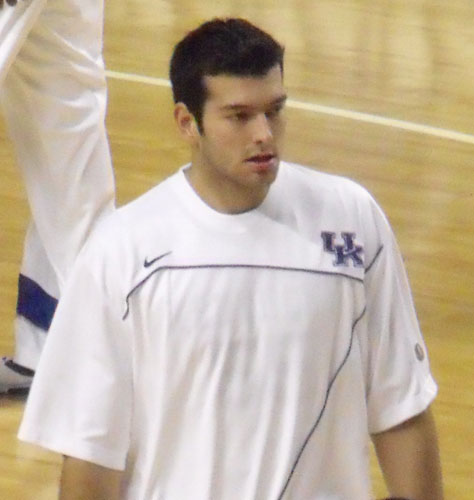 Kentucky Wildcats center Josh Harrellson